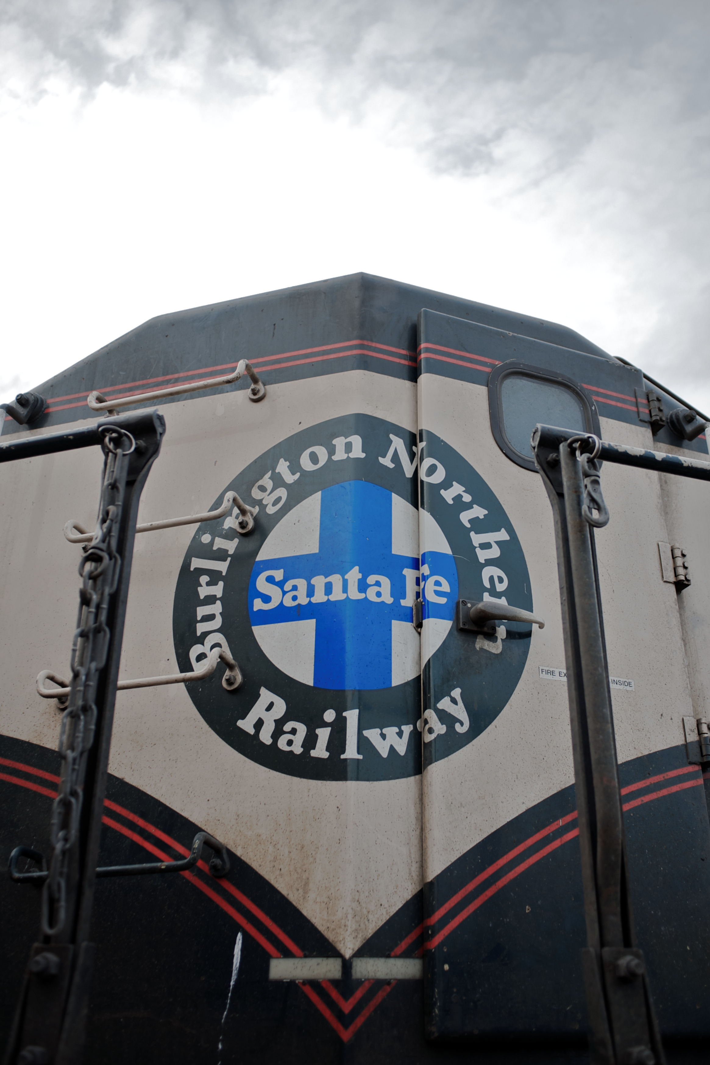 Front of a BNSF diesel locomotive